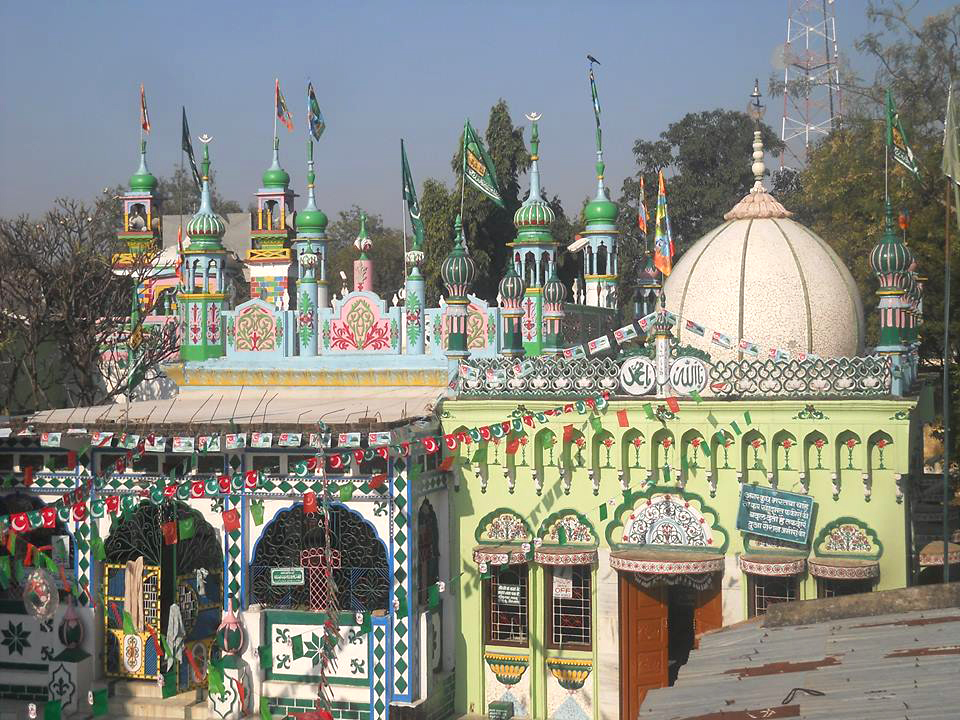 Tarbha Waale Baba